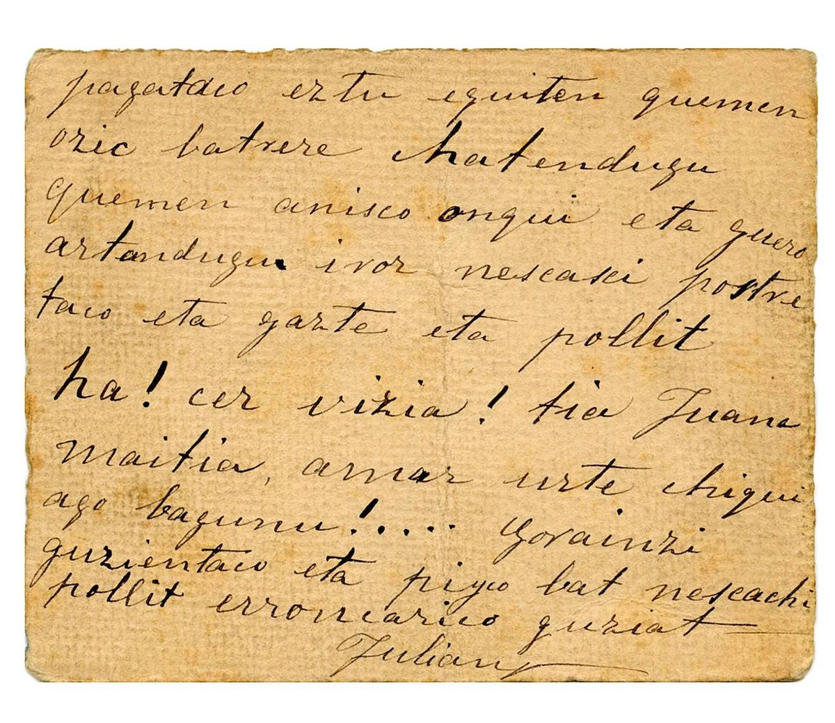 Handwritten letter in Basque by opera tenor Julian Gayarre